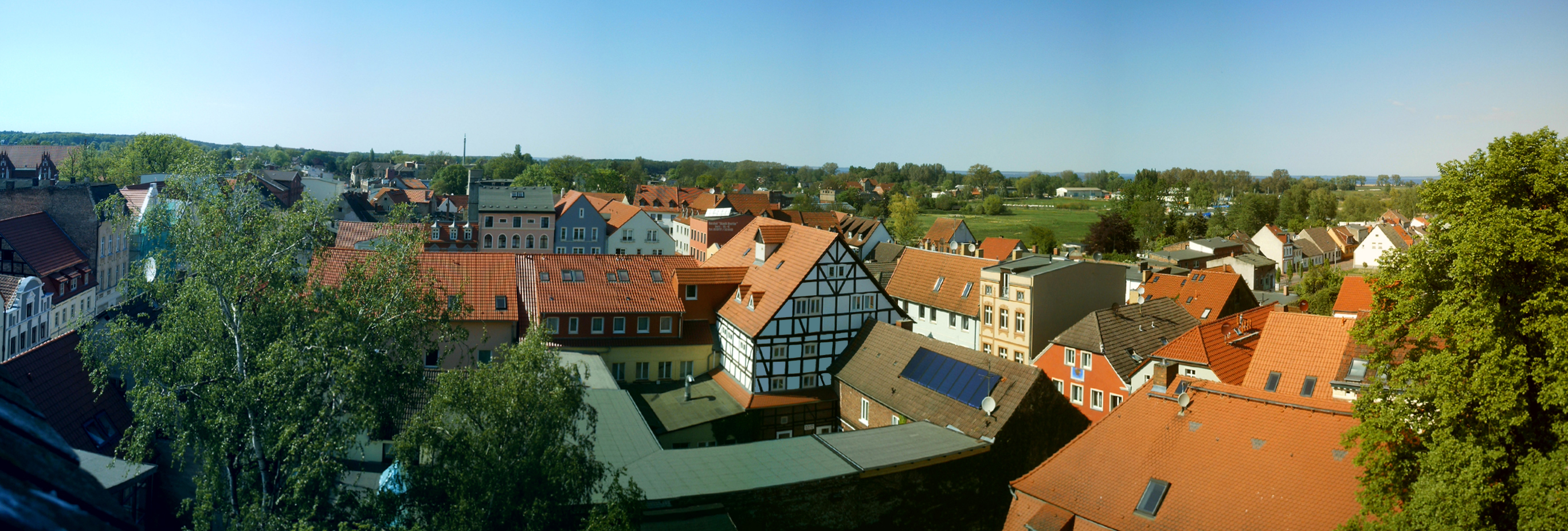 Panoramic of the city of Ueckermünde, Mecklenburg-Vorpommern, Germany